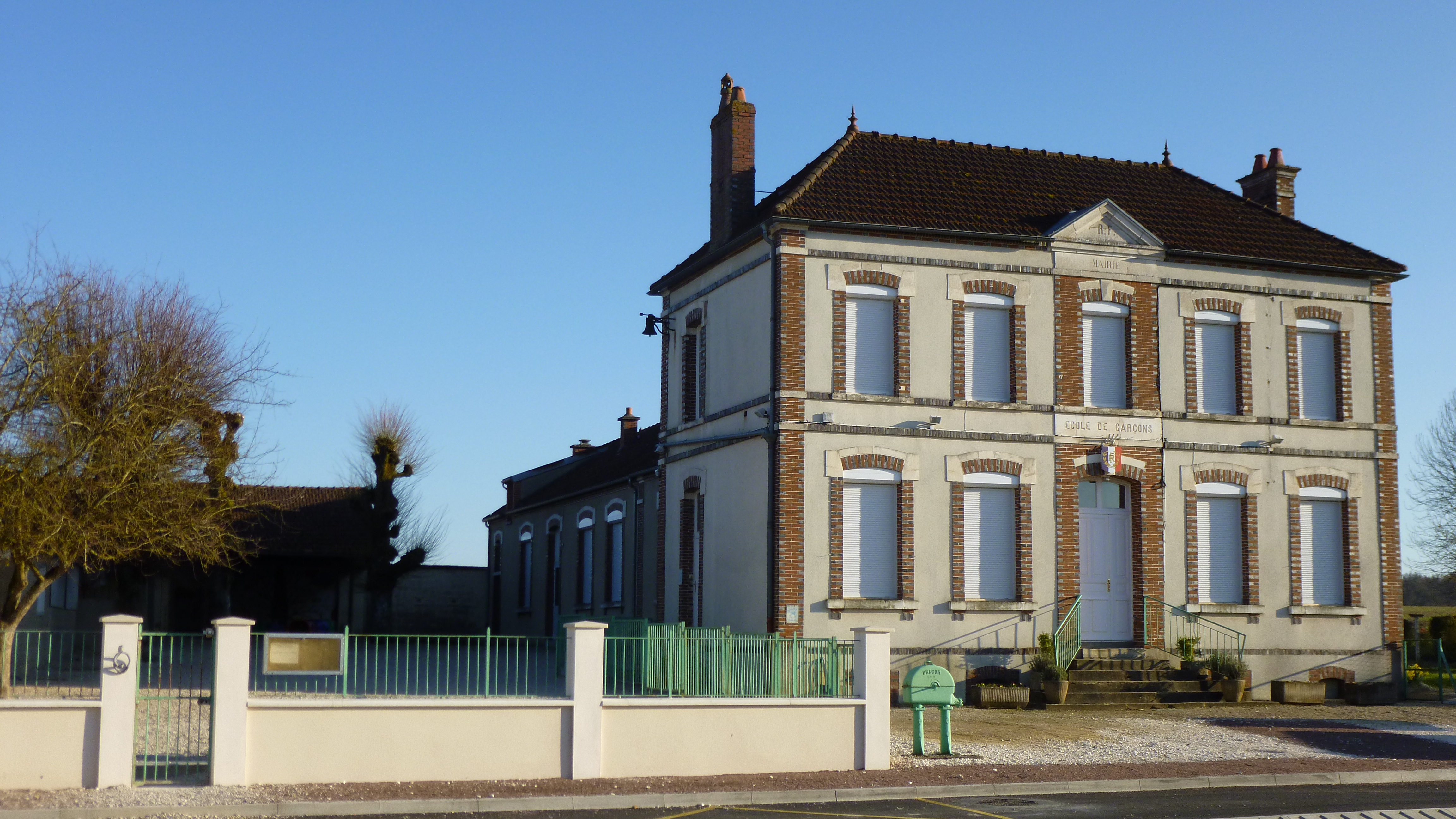 Saint-Loup-d'Ordon, Yonne, Burgundy, France. Town hall and school yard.